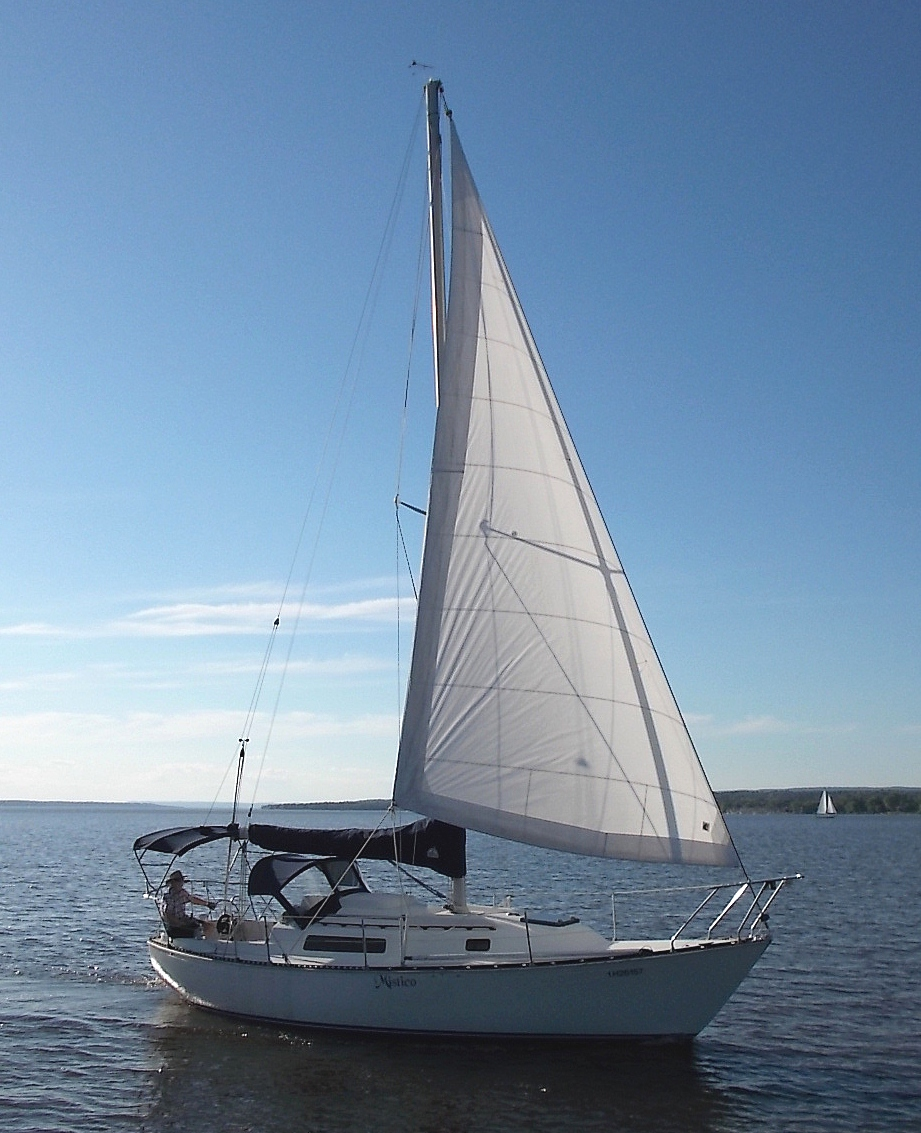 C&C 30 Mk 1 sailboat Mistico on Lac Deschênes, part of the Ottawa River, Ottawa, Ontario, Canada